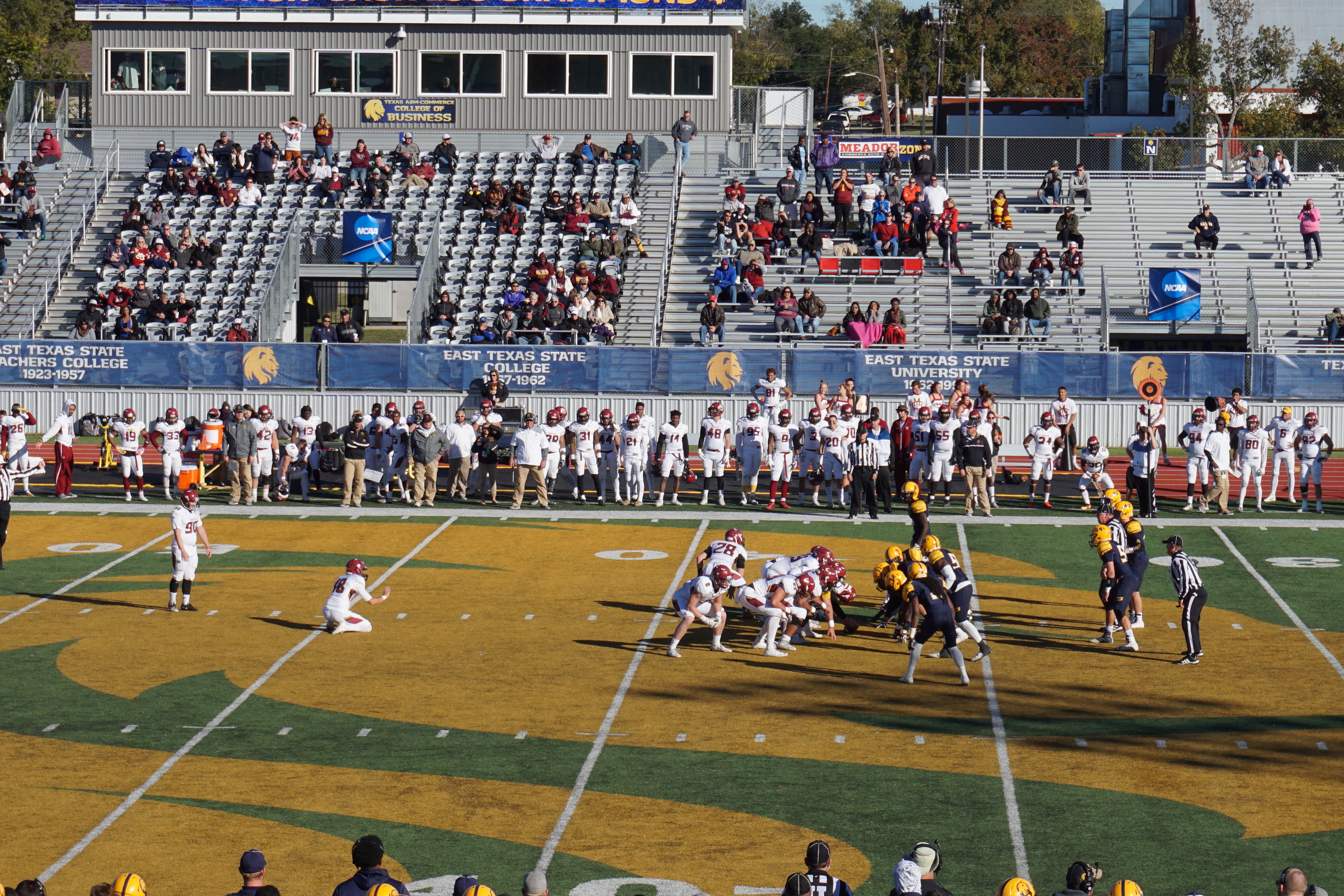 Colorado Mesa kicking a field goal during the Colorado Mesa Mavericks vs. Texas A&M–Commerce Lions football game at Memorial Stadium in Commerce, Texas (United States). A&M–Commerce won 34–23.